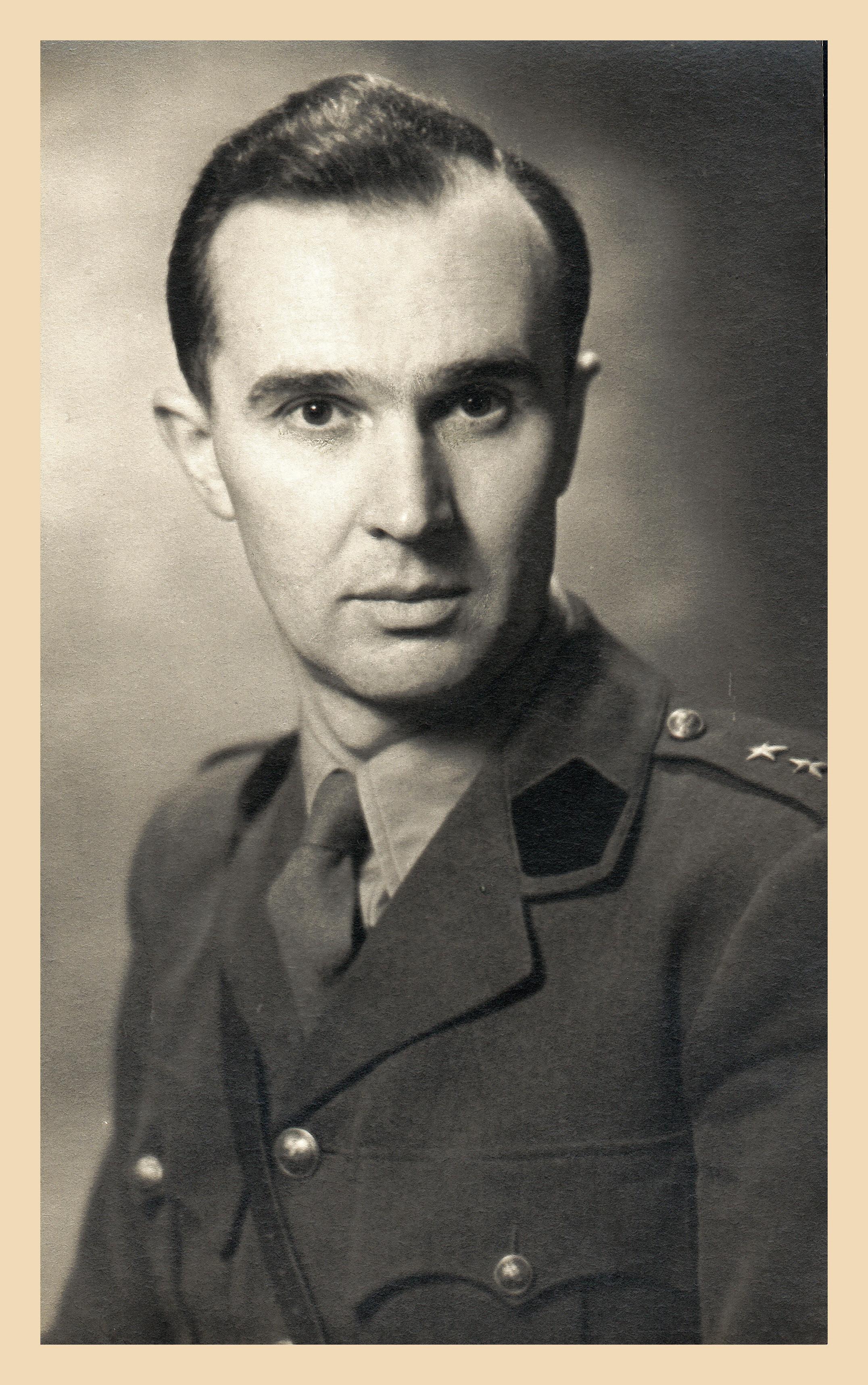 Waclaw Struszynski